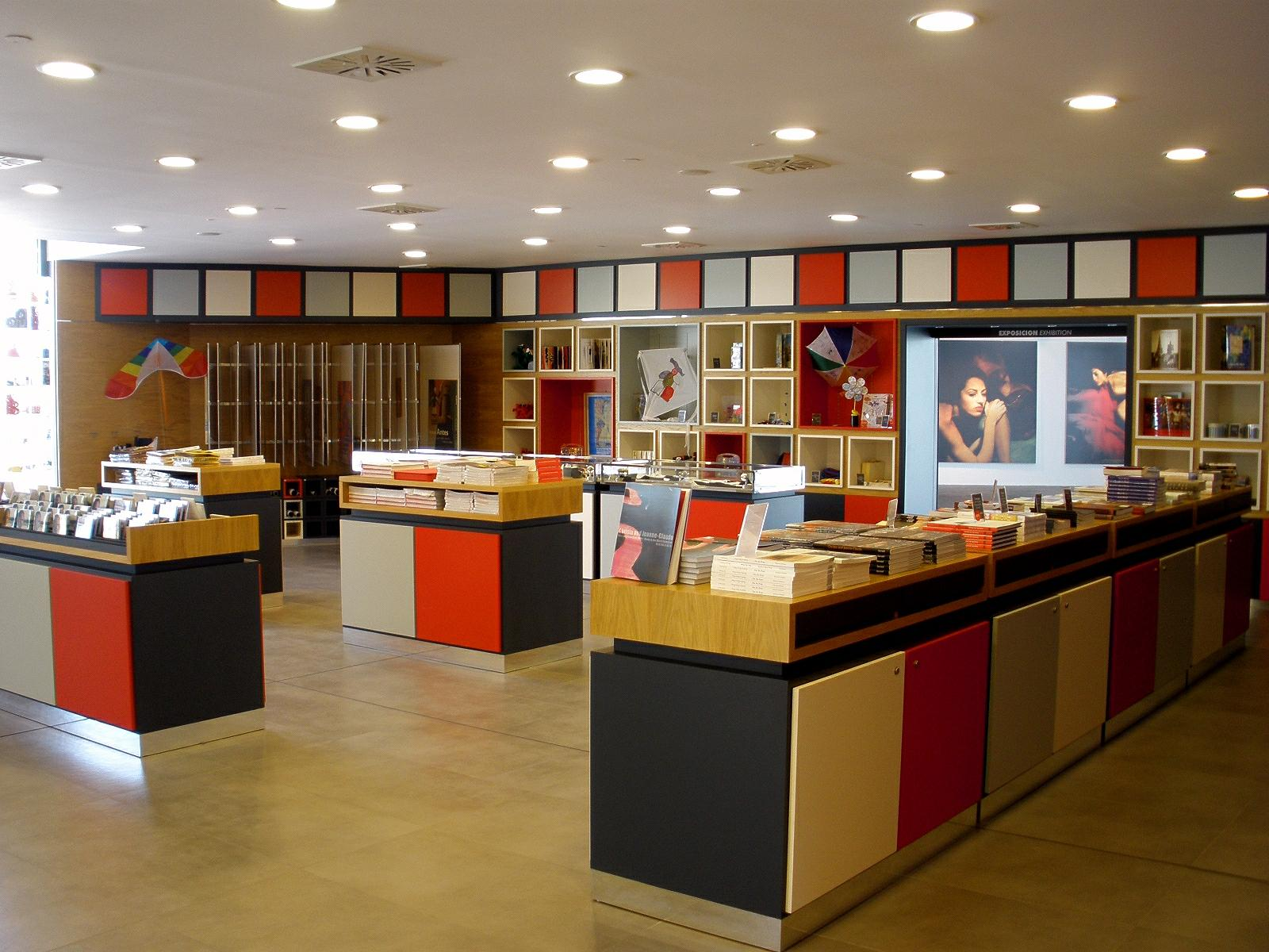 Tienda del Museo Würth La Rioja, en Agoncillo (La Rioja, España)